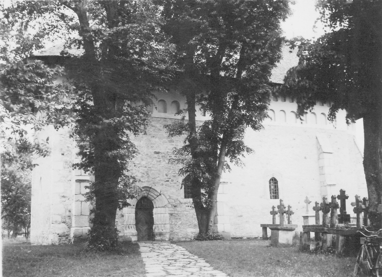 Church in Volovăț (image from the archive of the Metropolitan of Moldavia, 1936, free of copyright)